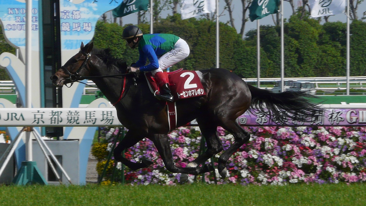 Tosen-homareboshi20120505(1)